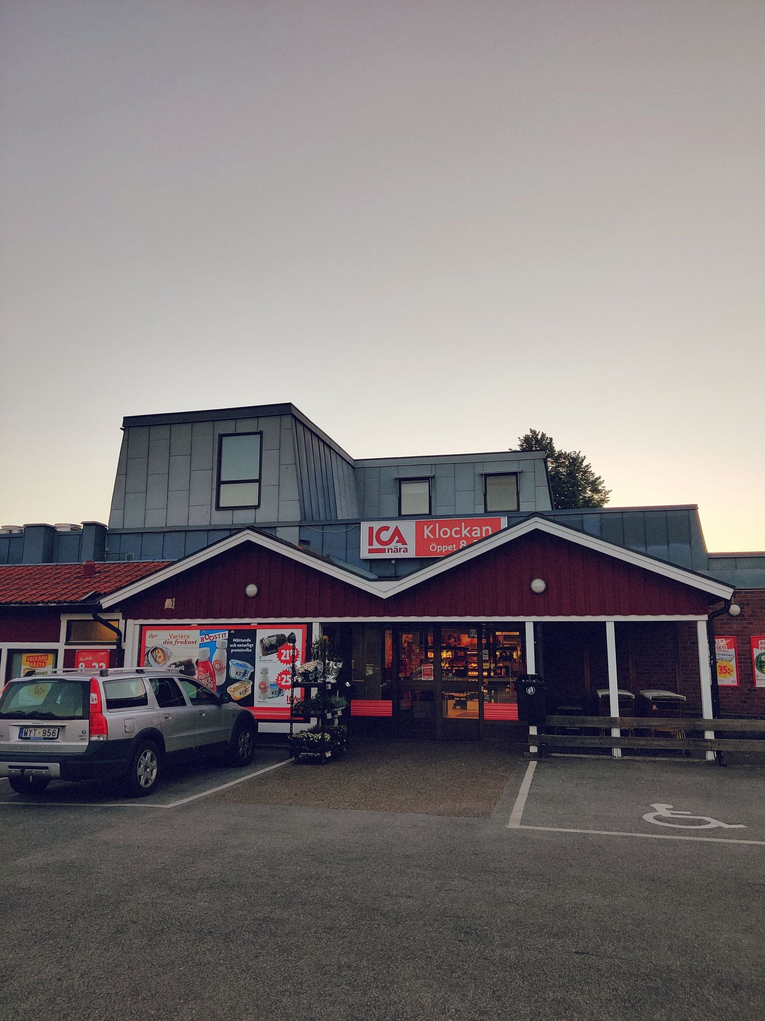 ICA NÄRA local store in Sandviken